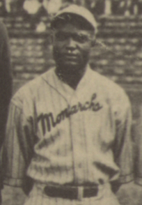 Hurley McNair at the 1924 Colored World Series. LOC states here that there are no restrictions on use of this image, therefore it is PD. This file has been extracted from another file: 1924 Negro League World Series.jpg